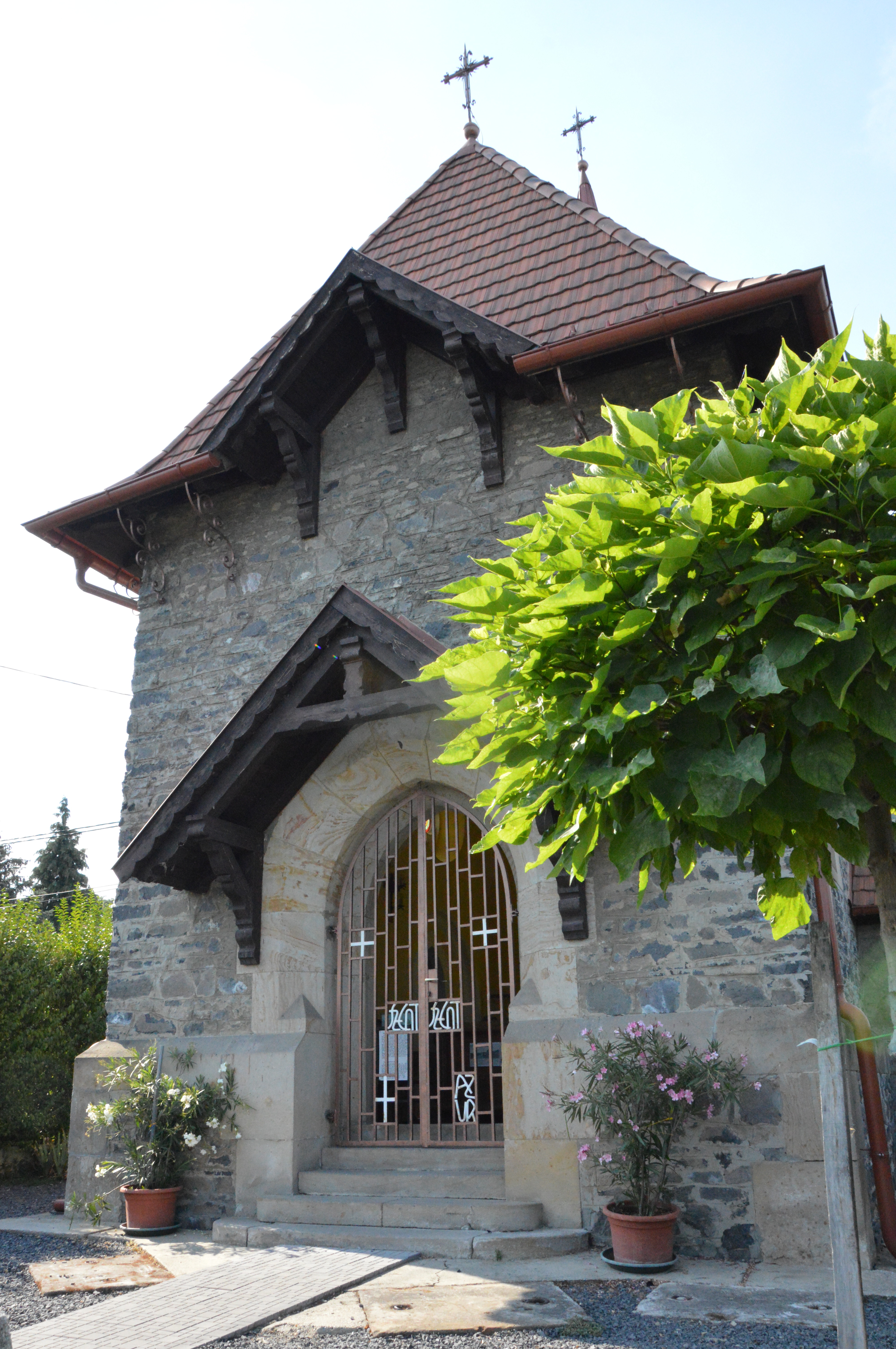 Saint Donatus Chapel in Badacsony, Hungary